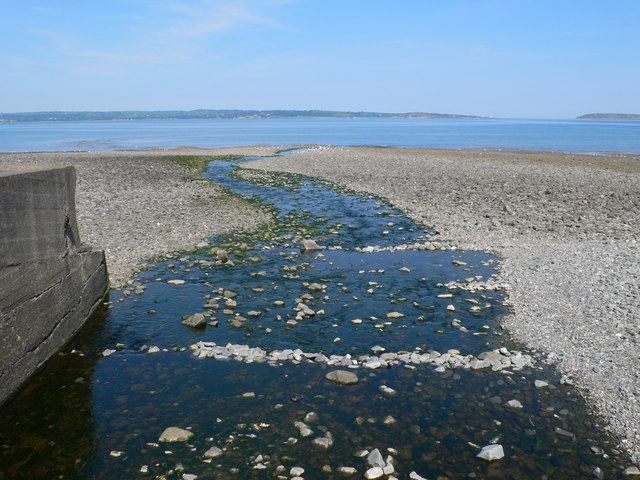 Afon Llanfairfechan Afon Llanfairfechan as it reaches the sea, to the west of the promenade. Over the water are Anglesey to the left and Puffin Island far right.